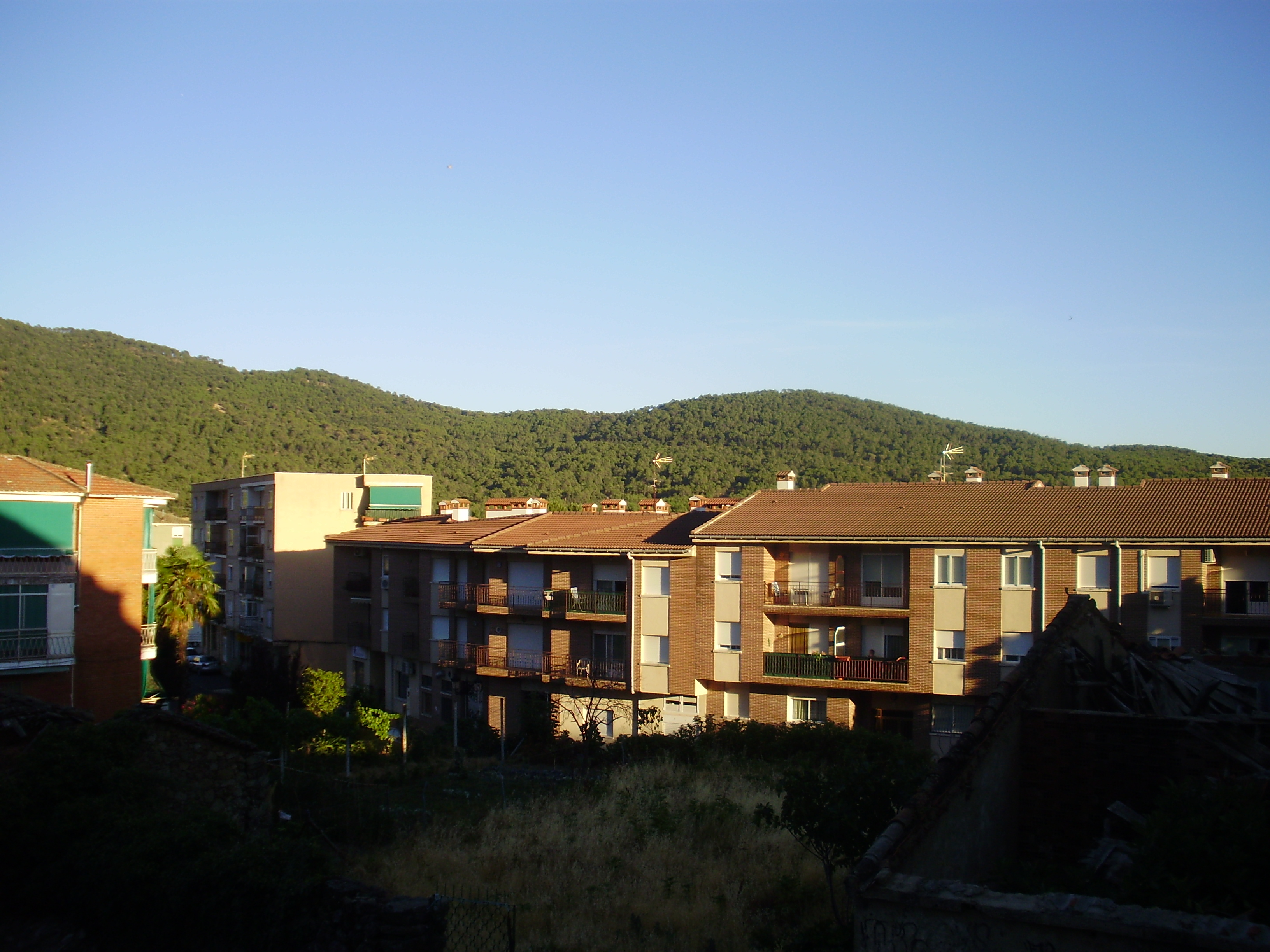 Partial view of Santa María del Tiétar